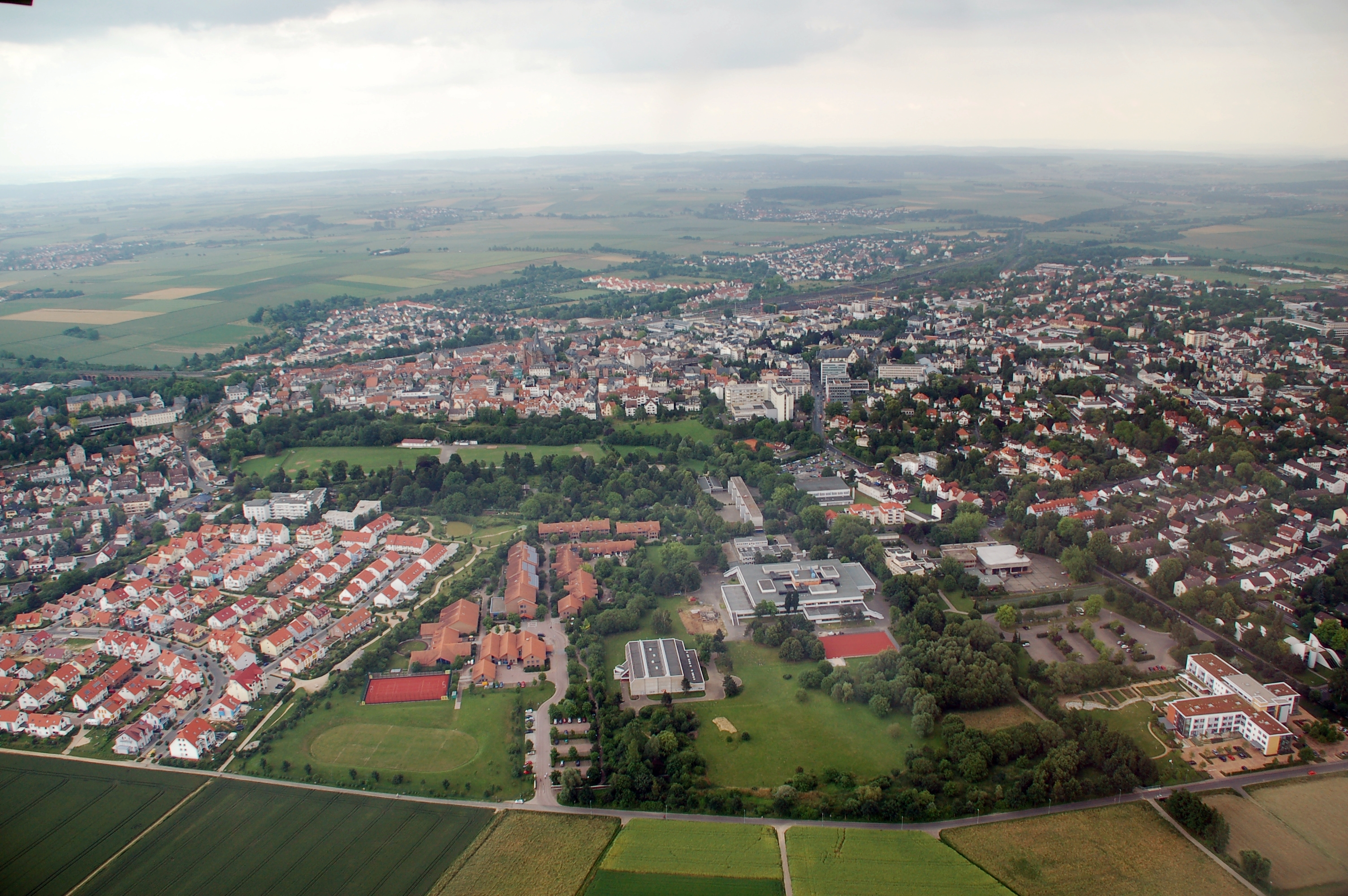 Aerial photograph of Friedberg, Hessen, Germany, view from the West